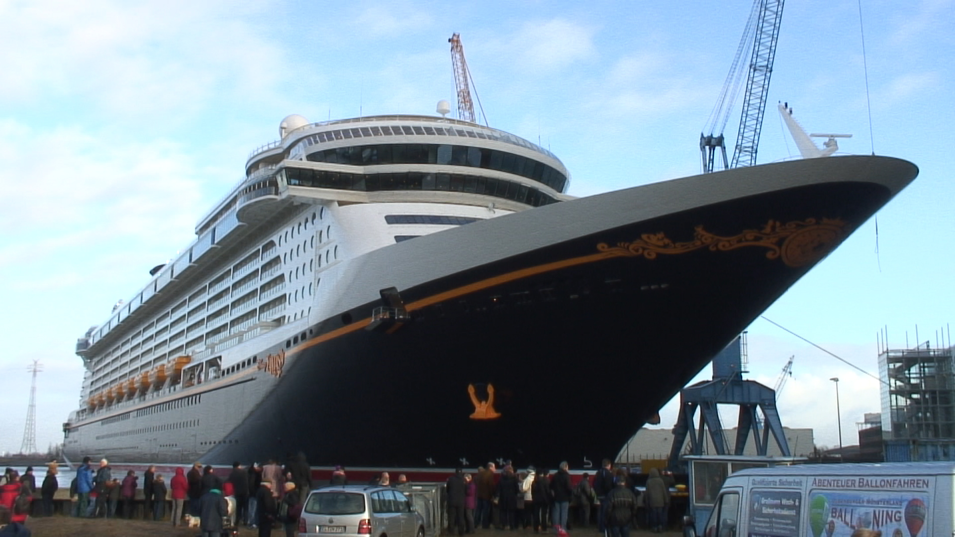 The new Diney Fantasy after the float out at Meyer Werft shipyard in Papenburg, Germany.